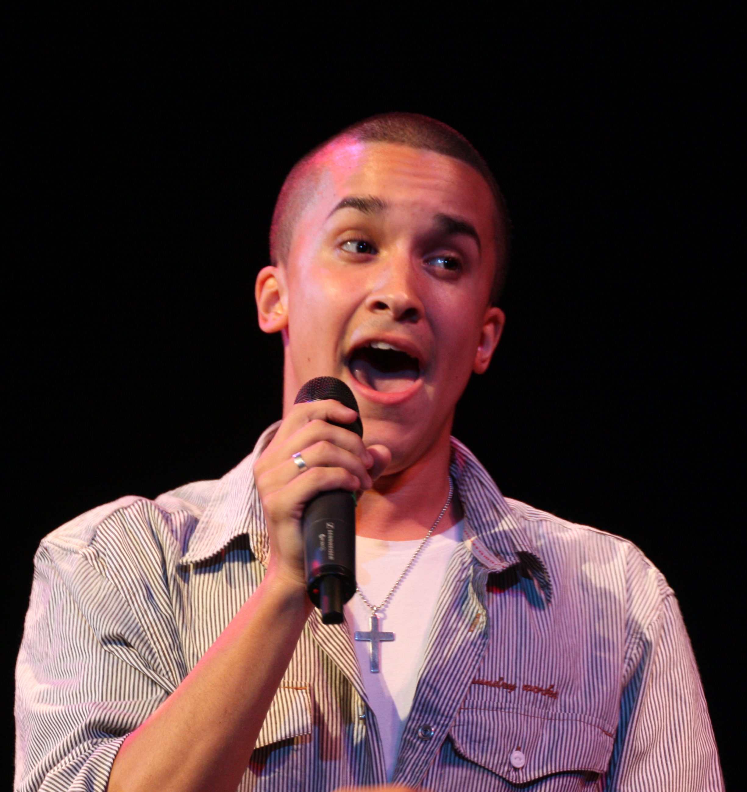 Jahméne Douglas in 2011, performing at Swindon Has Talent.